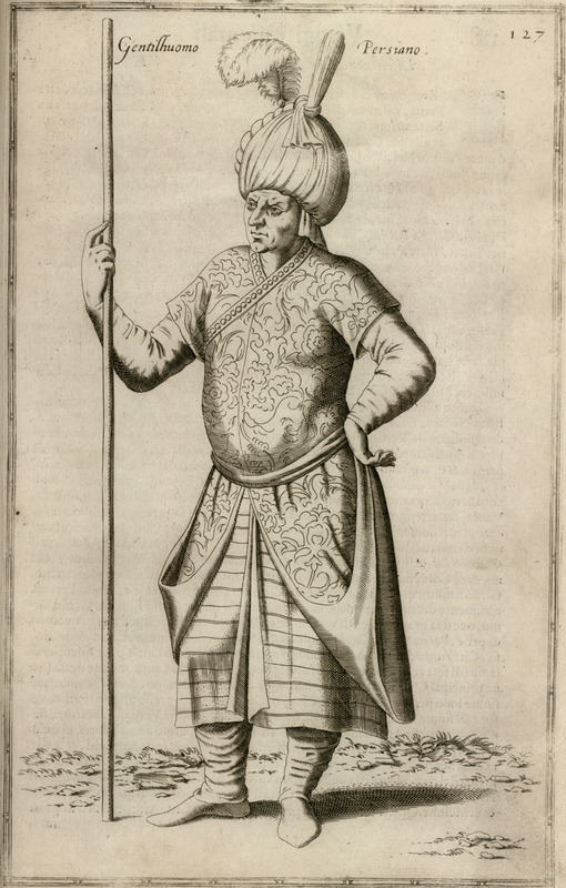 Nicolas de Nicolay. Le Navigationi et viaggi, fatti nella Turchia. Novamente tradotto di Francese in Italiano da Francesco Flori da Lilla, Aritmetico, Venice, Francesco Ziletti, 1580.